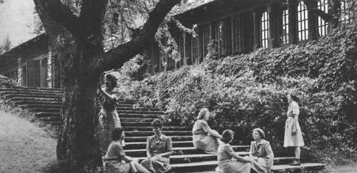 Images from Our Village: Briarcliff Manor, published with no copyright notice.